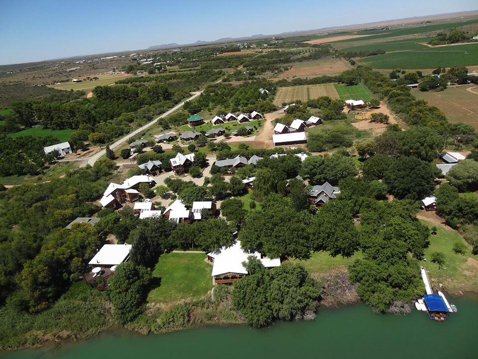 Oewerpark resort on the Orange River, with the main town in the background.